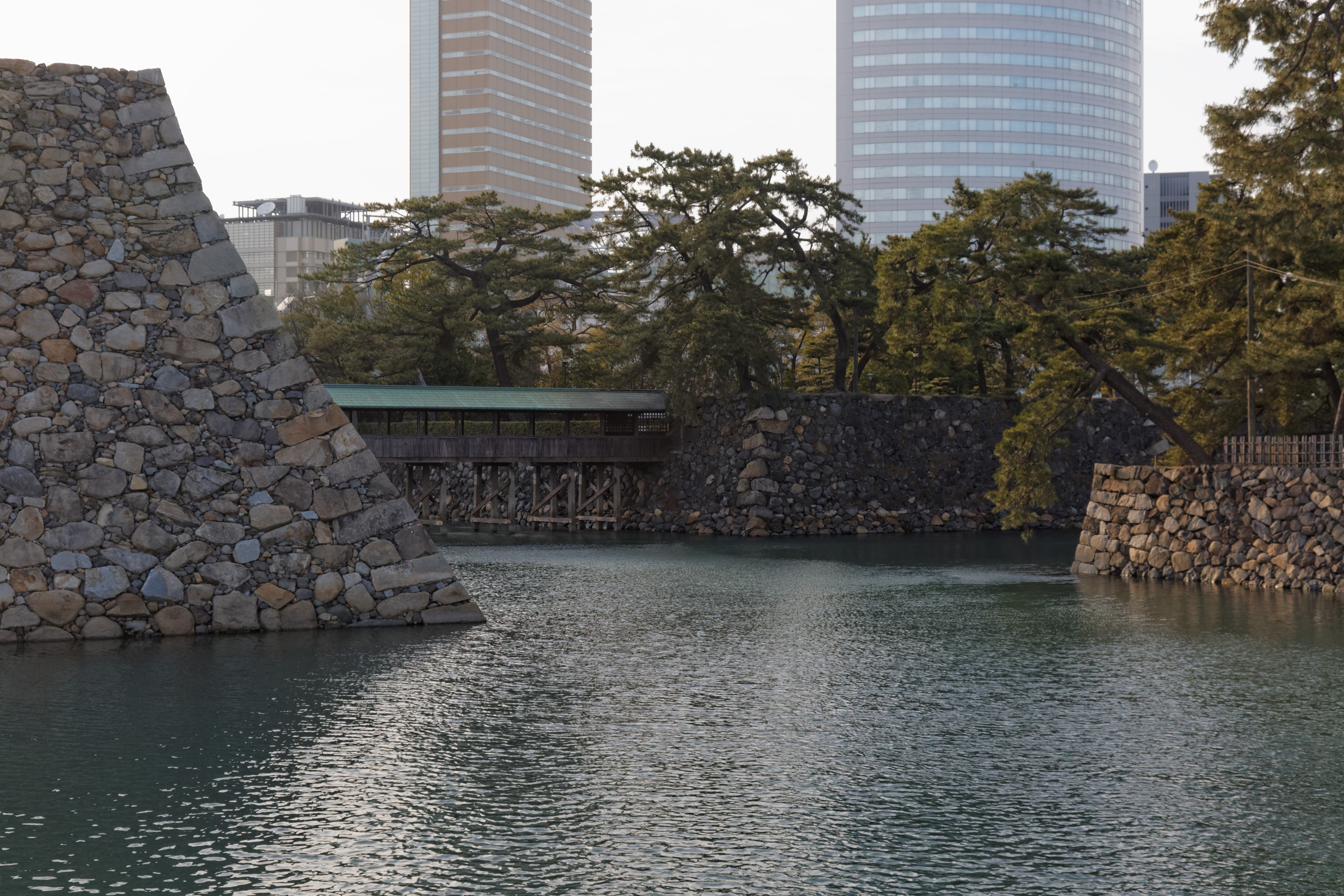 Sayabashi bridge